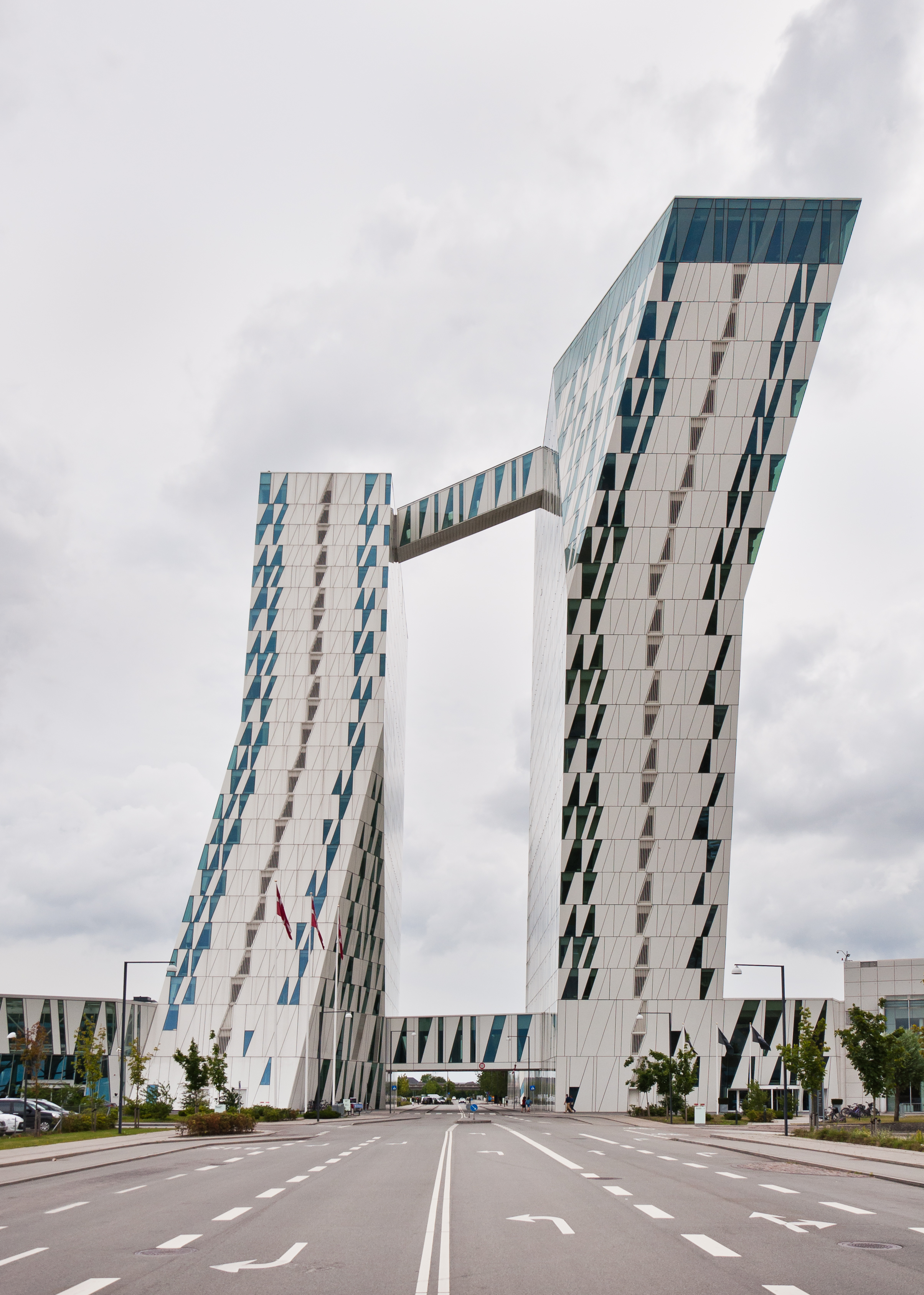 The Bella Sky Comwell Hotel (Copenhagen Ørestad).